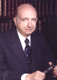 Photo of Arnall Patz